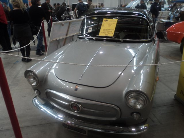 Fuoriserie 2011, the event devoted to vintage cars.